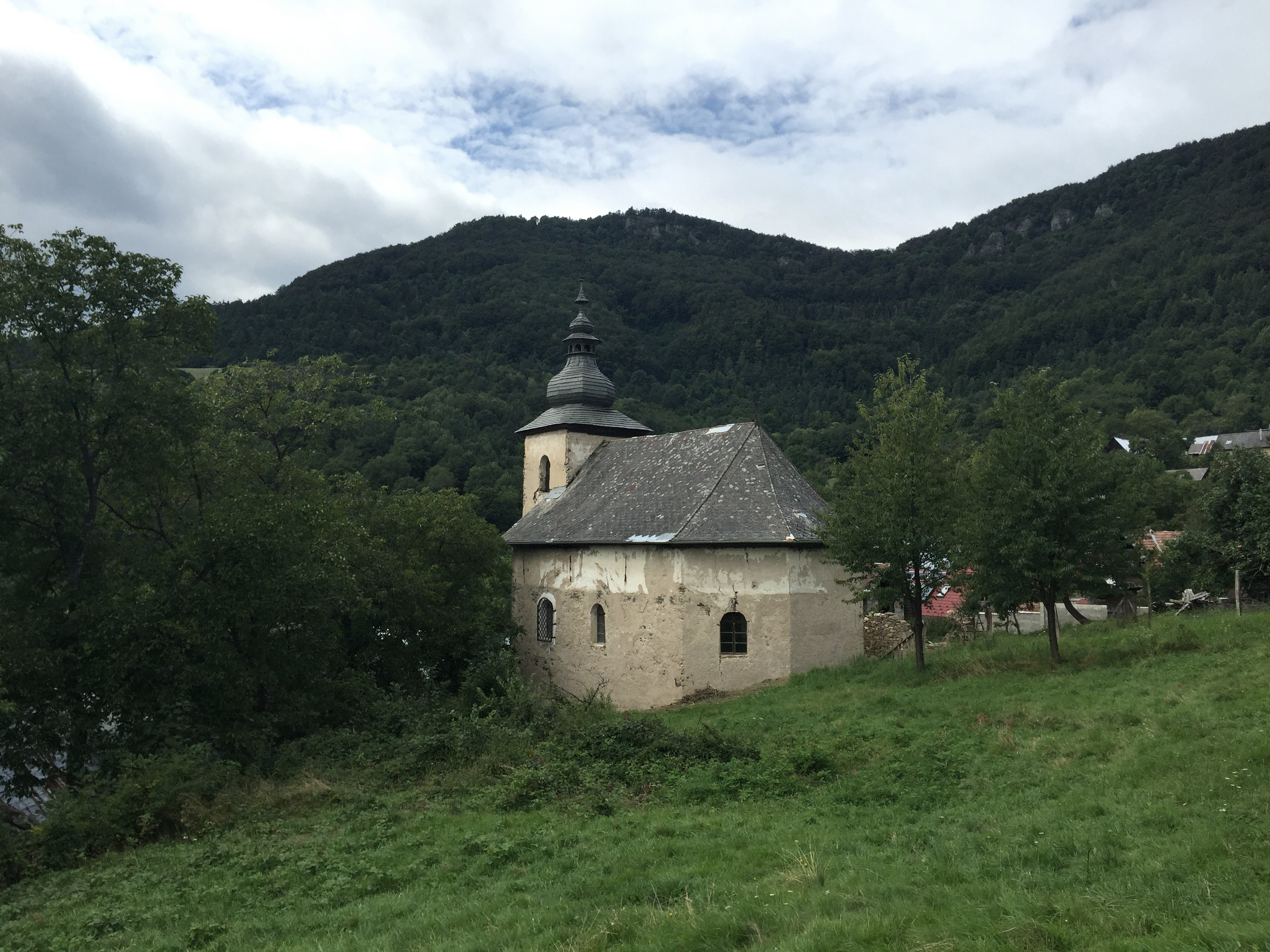 Evangelical church in Brdárka, Slovakia. Ranaissance-baroque architecture from 1696.